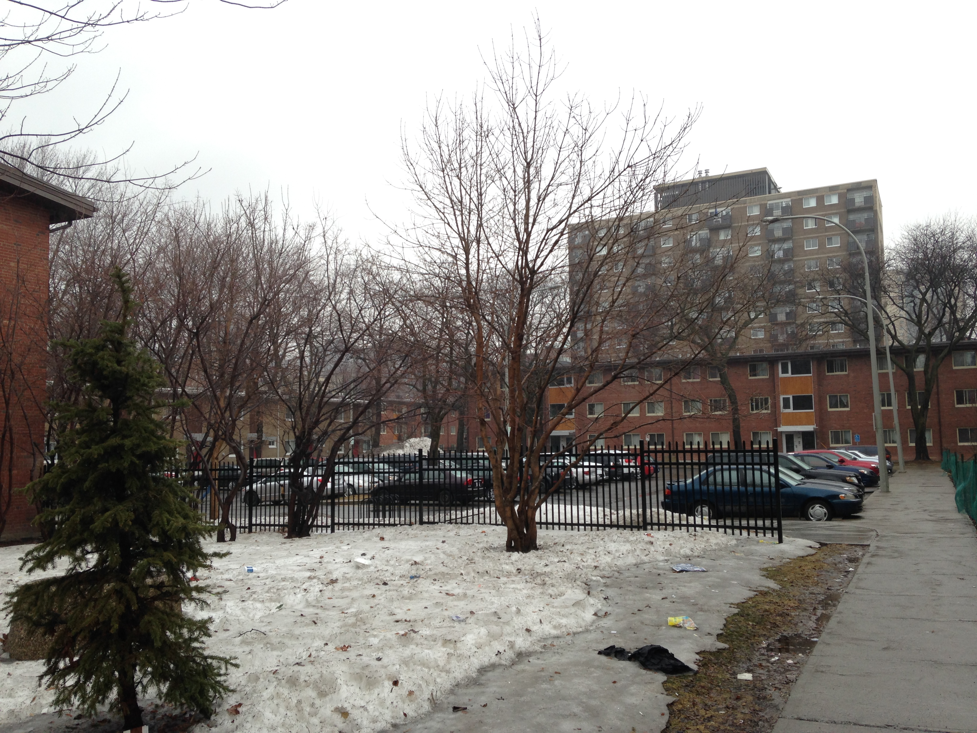 Jeanne-Mance housing project.